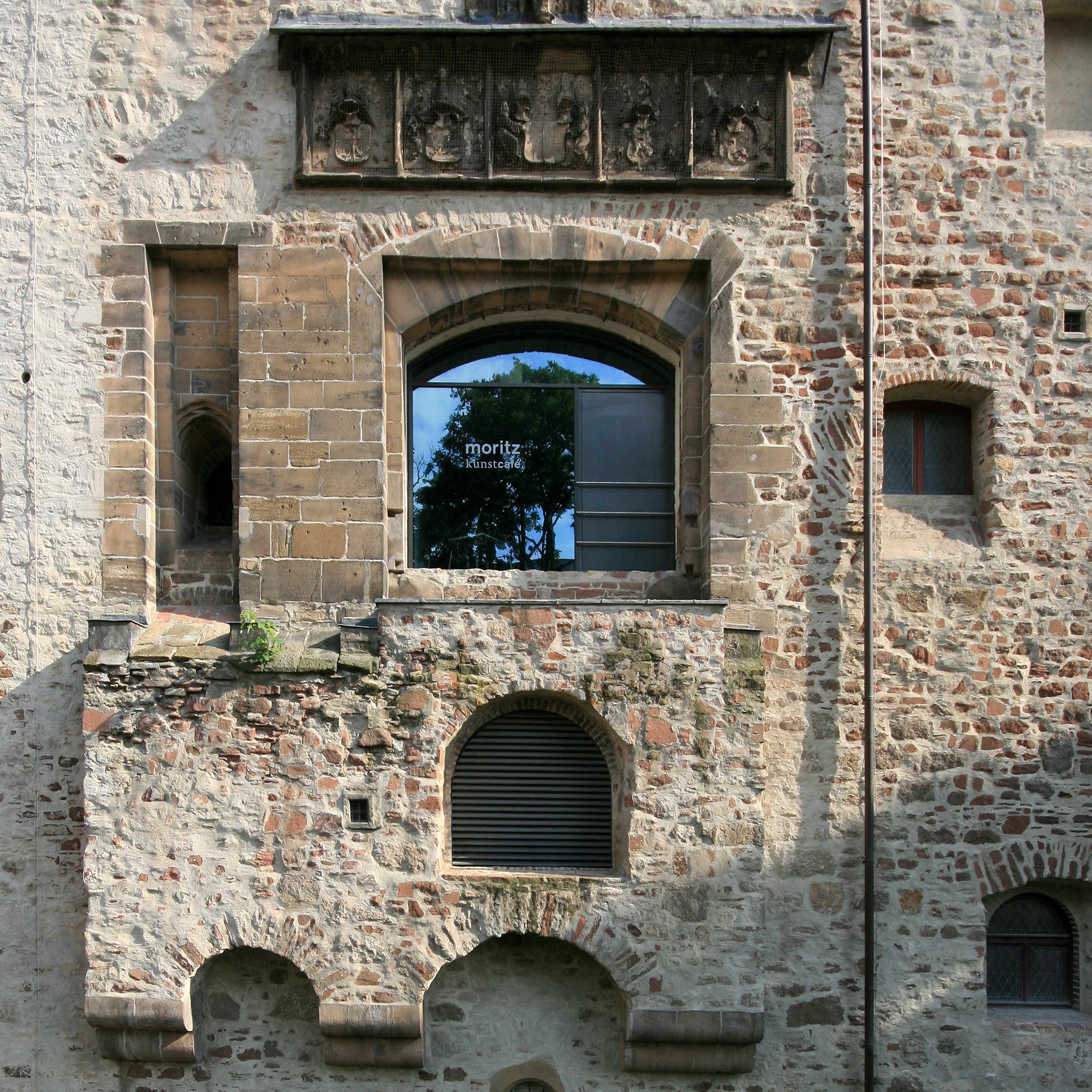 Moritzburg, Old Entrance on the Northside